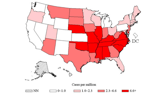 Geographic distribution of spotted fever rickettsiosis in 2014